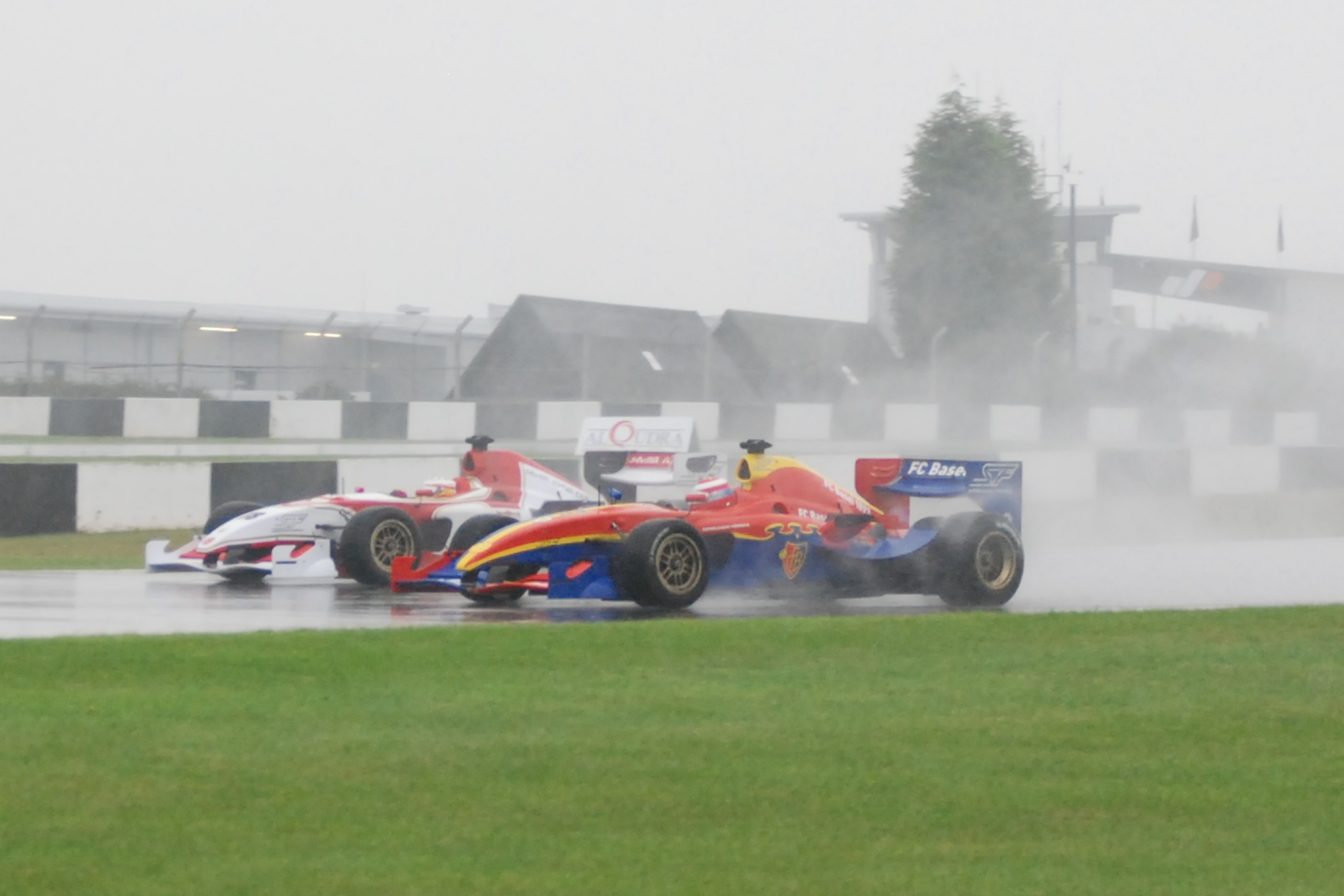 Superleague Formula cars at Donington Park